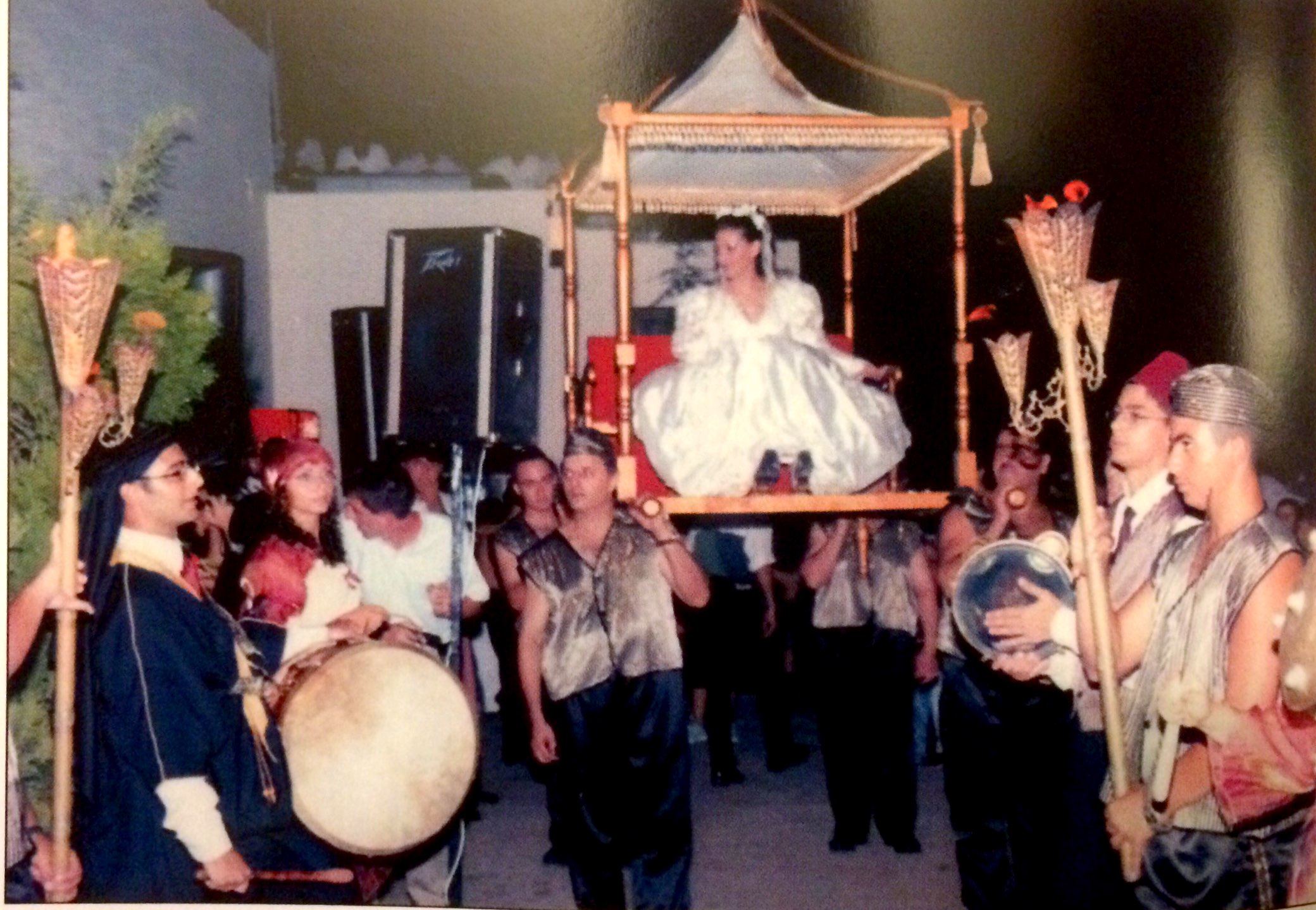 Abdo Yamine « Zakrit between yesterday and today »